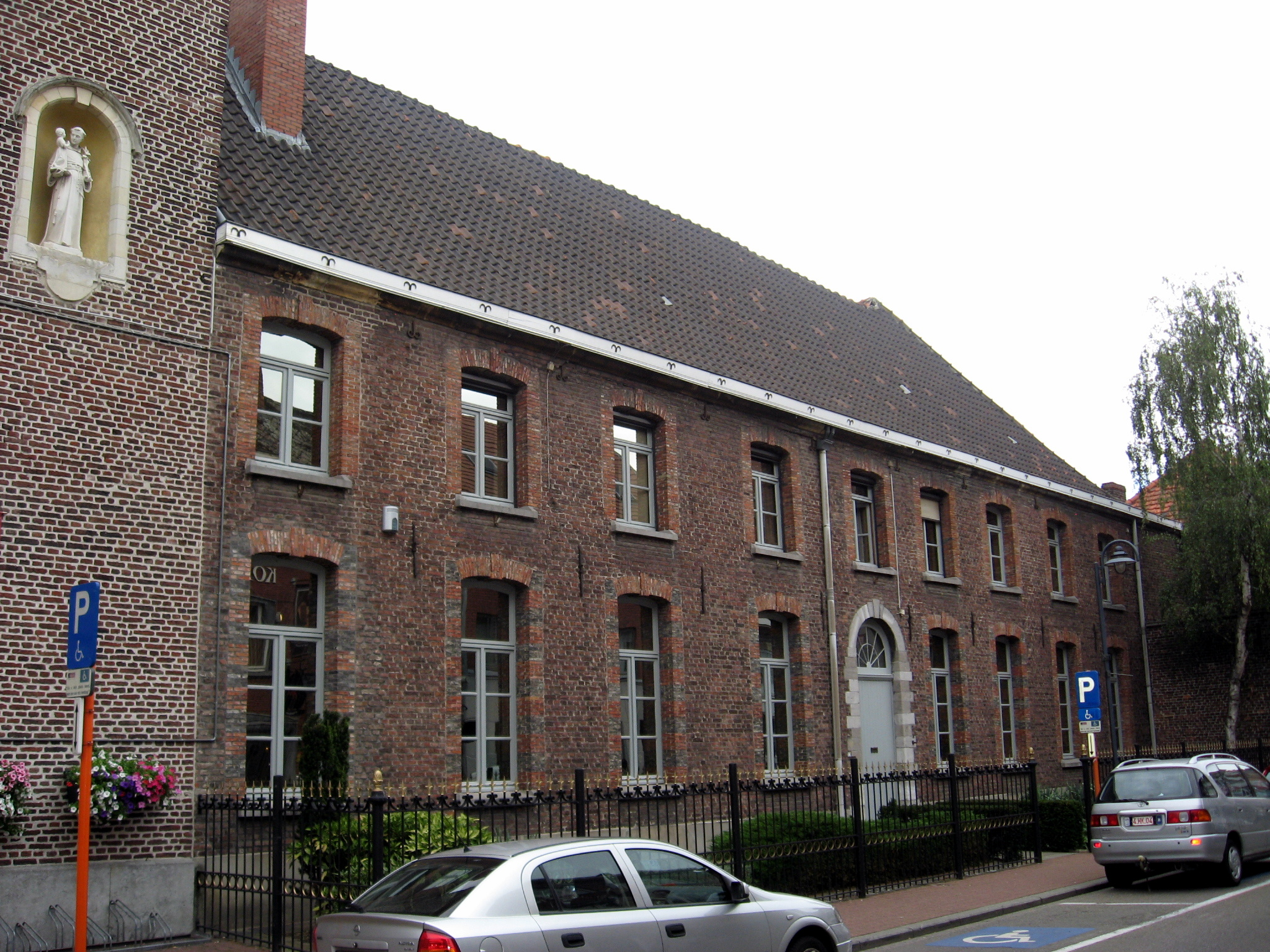 Monastery of the Franciscans in Hasselt, Limburg, Belgium